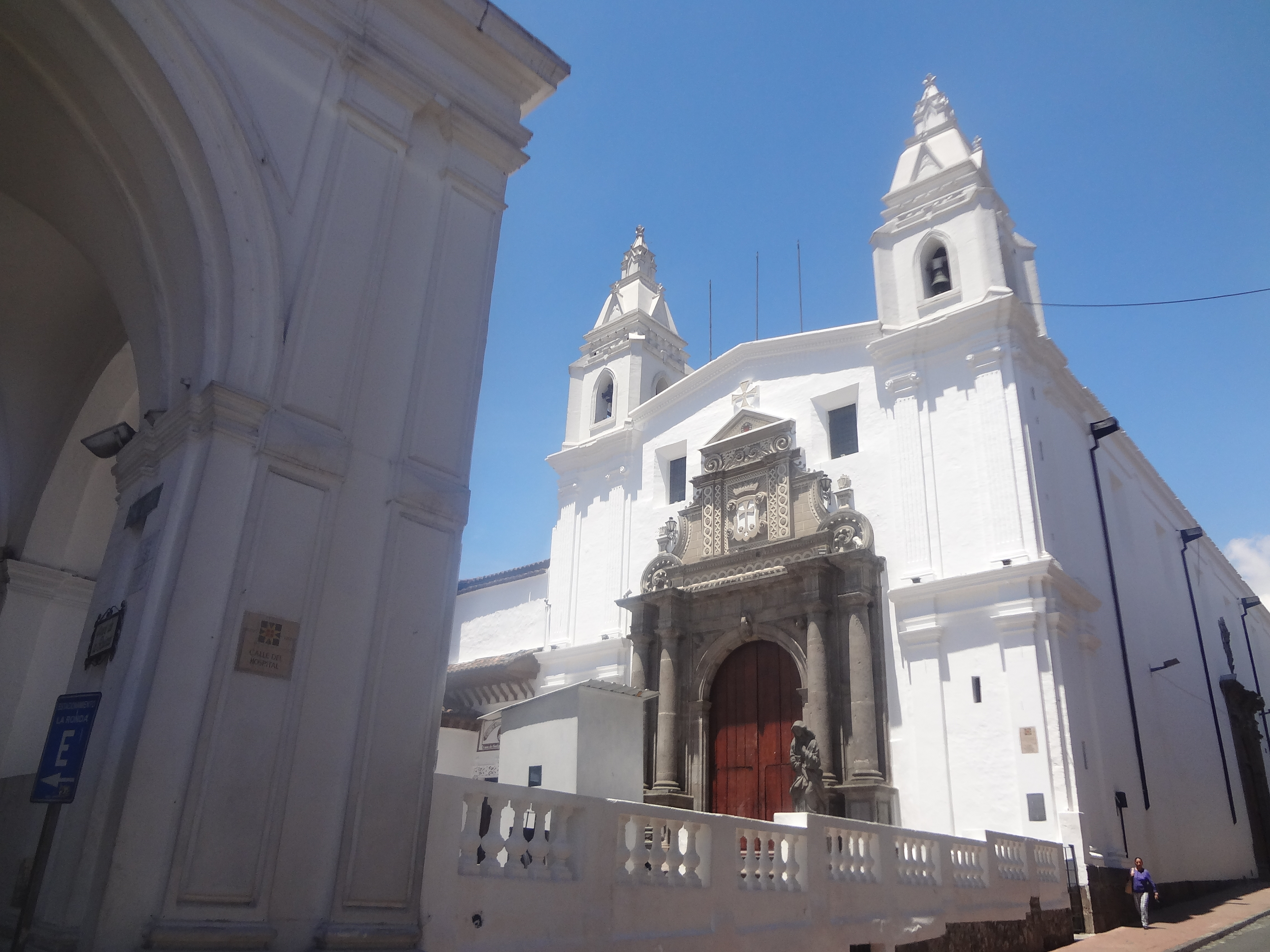 (Centro Histórico, Quito) Iglesia de El Carmen Alto